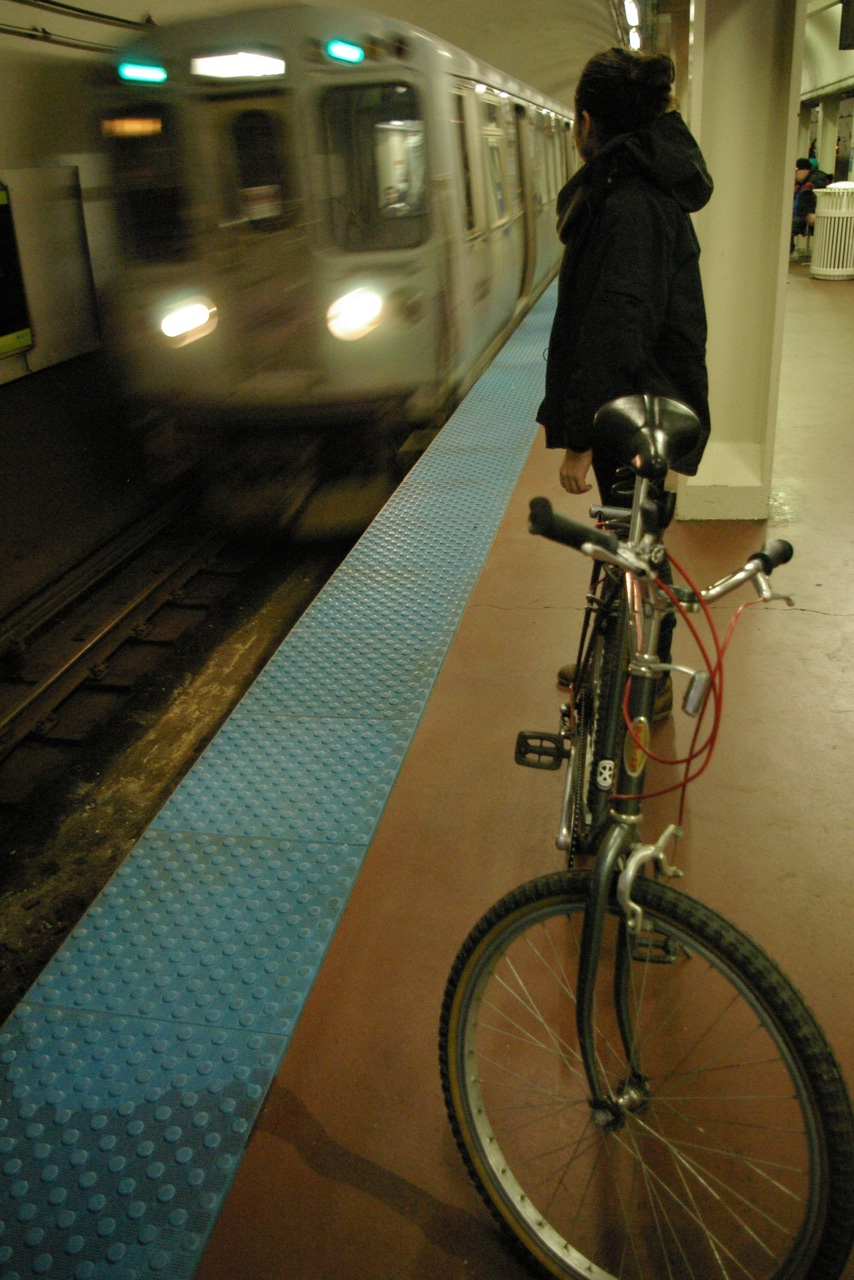 Commuting with the "L"